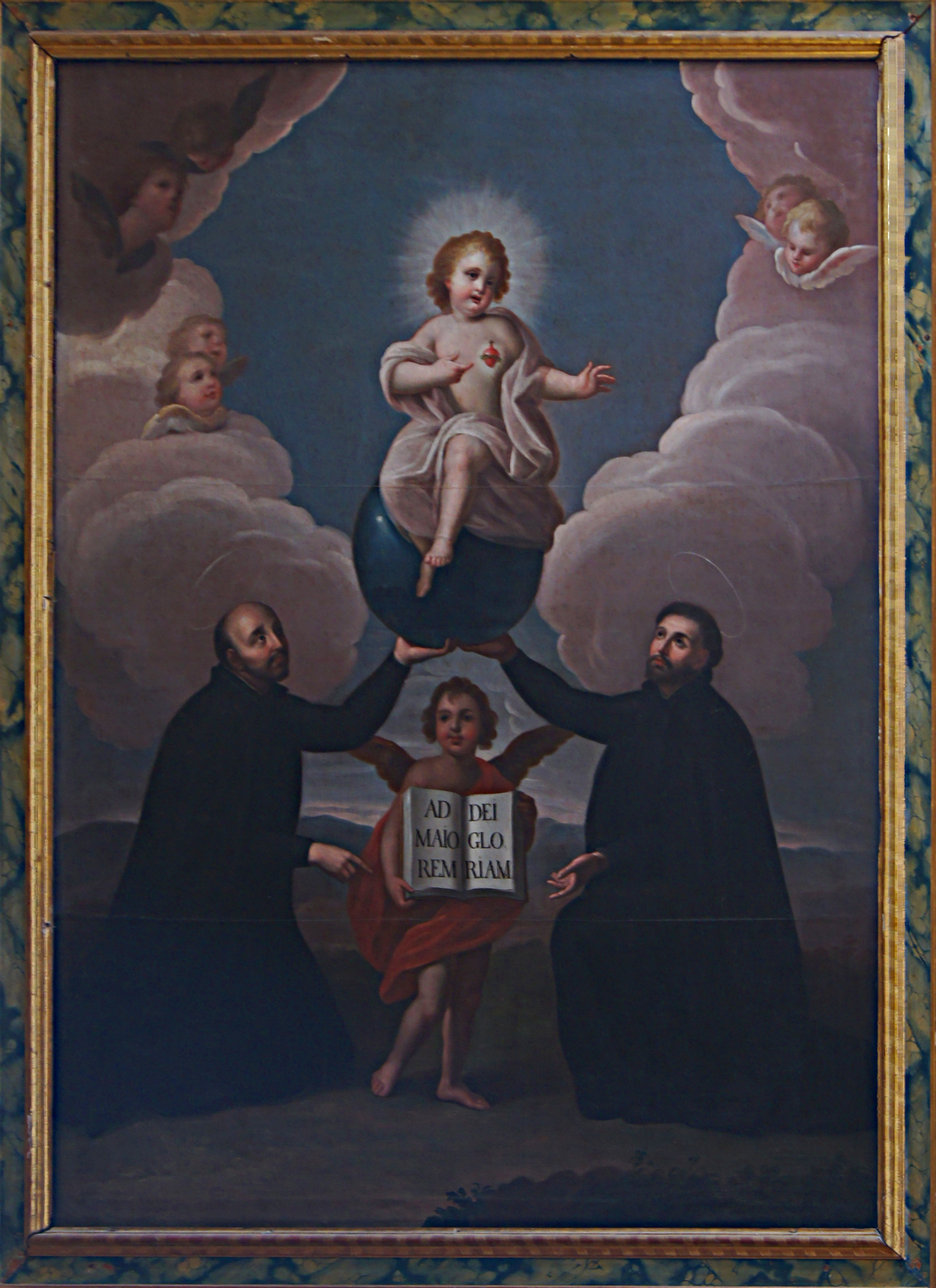 St Ignatius and St Francis Xavier, founders of the Jesuit order, Cathedral of Cordoba, Spain